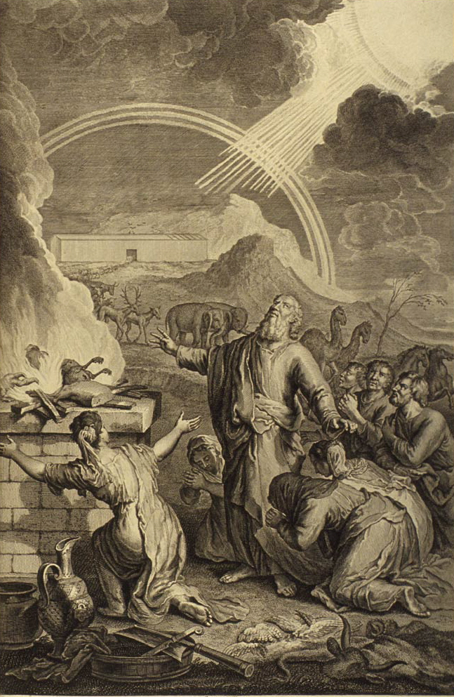 Noah offered burnt offerings on an altar to the Lord; as in Genesis 8:20: "and Noah builded an altar unto the Lord; and took of every clean best, and of every clean fowl, and offered burnt offerings on the altar."; illustration from the 1728 Figures de la Bible; illustrated by Gerard Hoet (1648–1733) and others, and published by P. de Hondt in The Hague; image courtesy Bizzell Bible Collection, University of Oklahoma Libraries